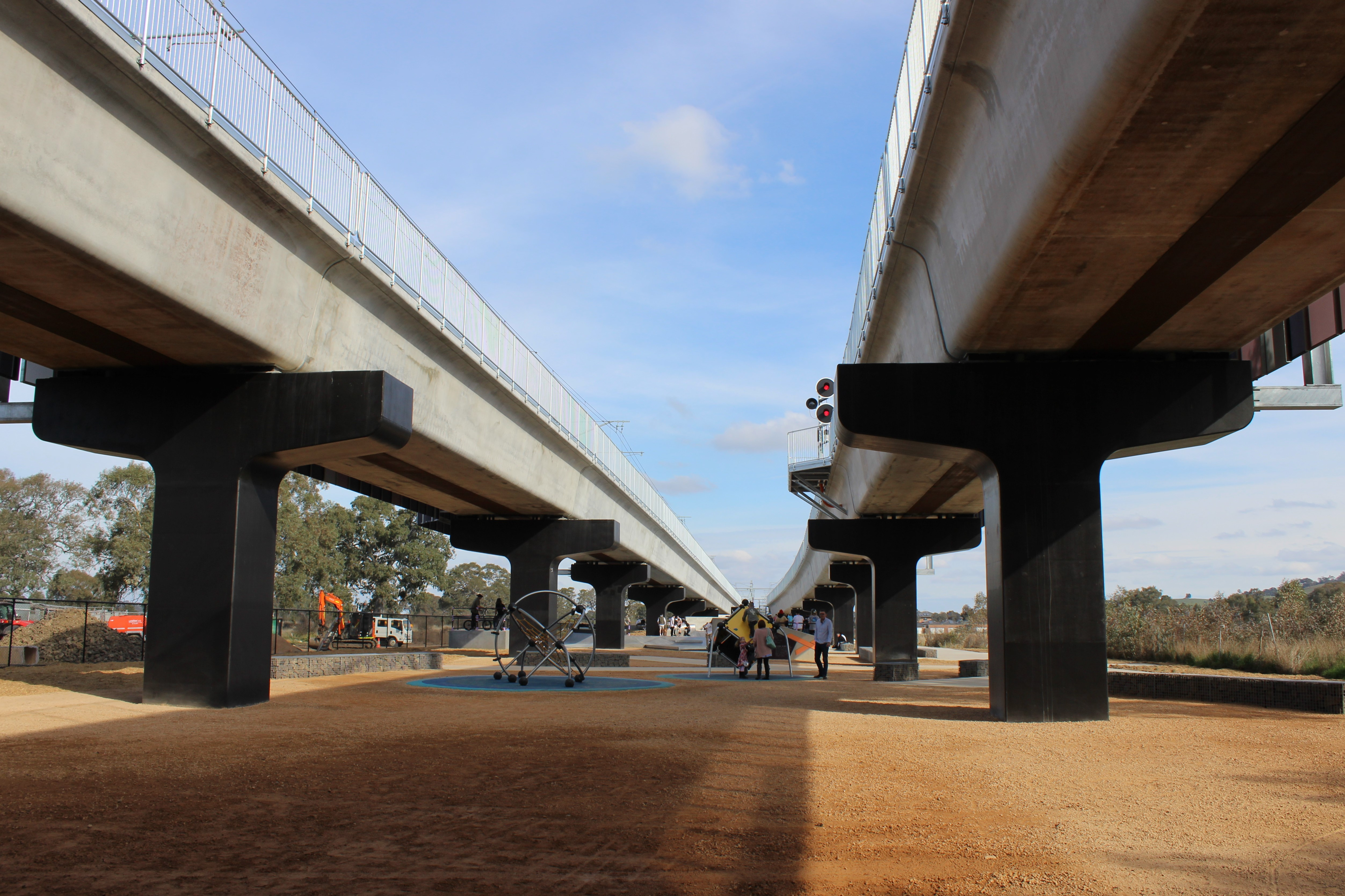 Playground and skate park underneath the new elevated rail extension to Mernda (opened in August 2018)